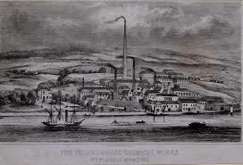 This is a famous chemical works that played a part in the development of the Alkali Act in the UK.